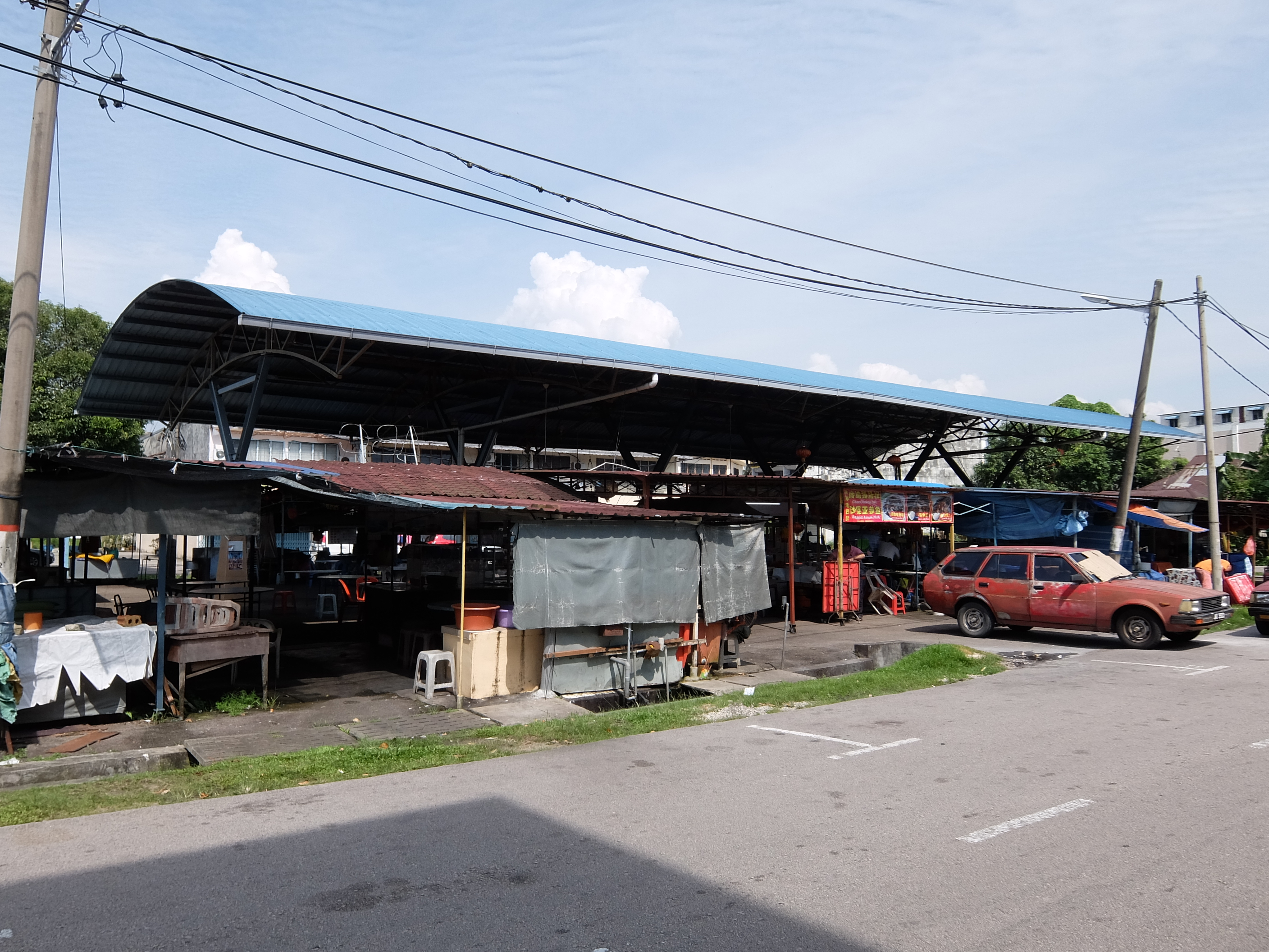 Pontian Lau Market, Pontian Kechil, Pontian, Johor, Malaysia